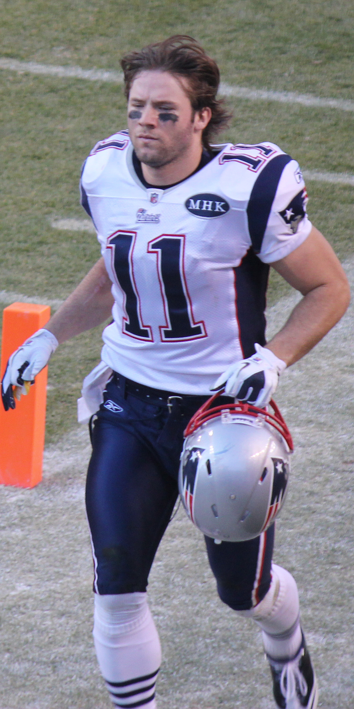 Julian Edelman, a player in the National Football League.